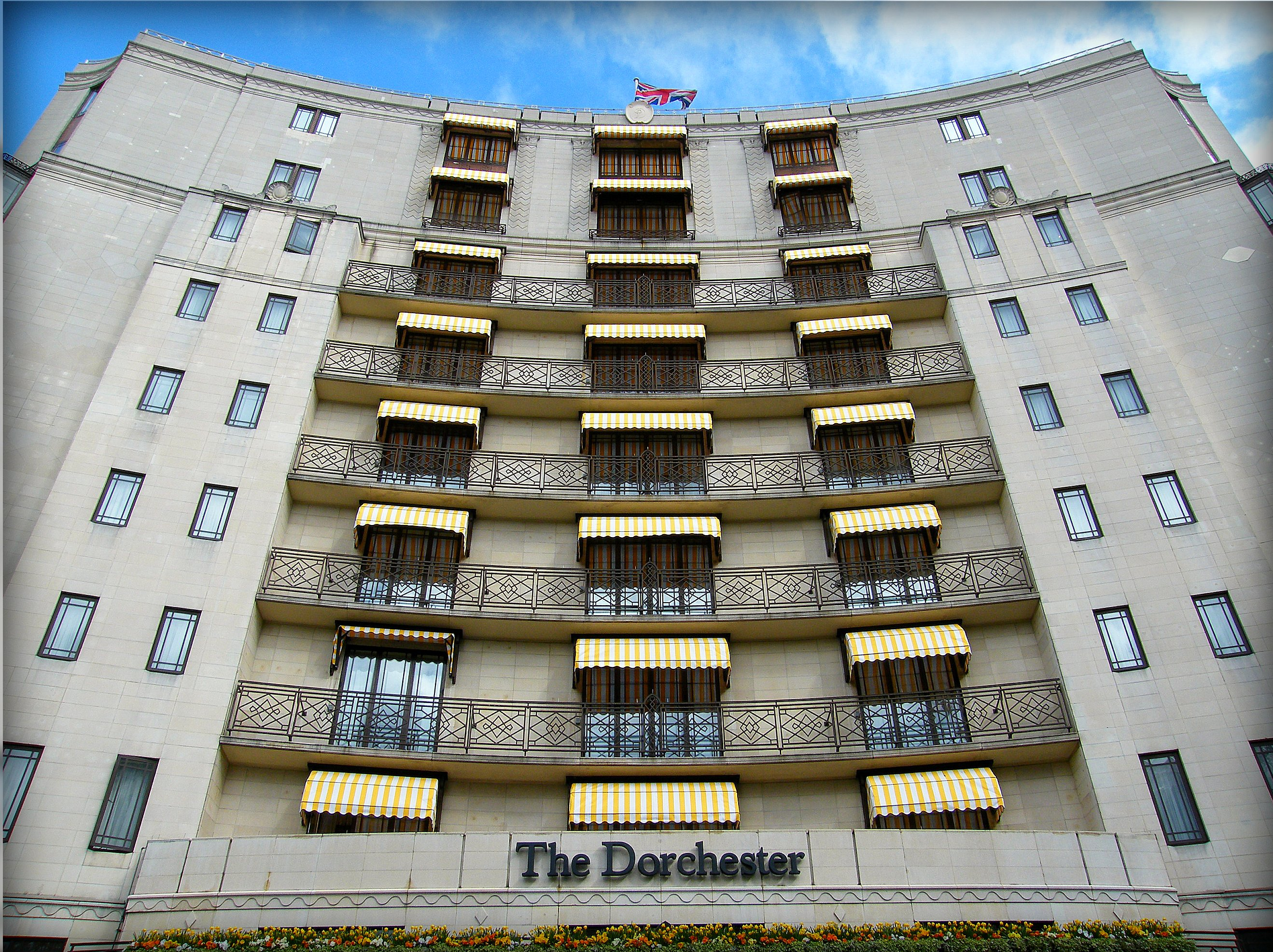 The Dorchester on Park Lane, Mayfair, London, UK.